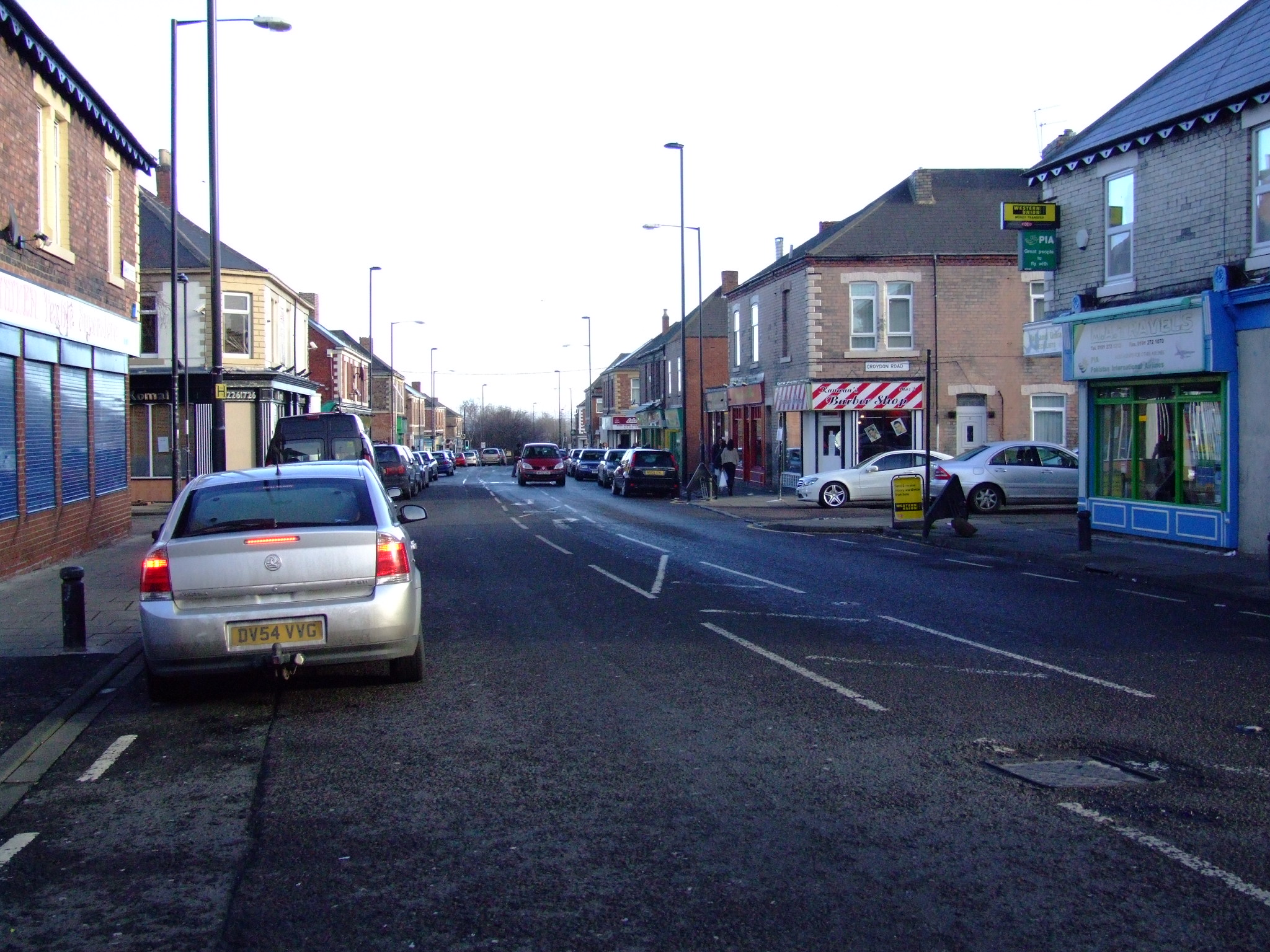 Stanhope Street looking towards Croyden Rd and the City Centre. Small shops, Asian owners.